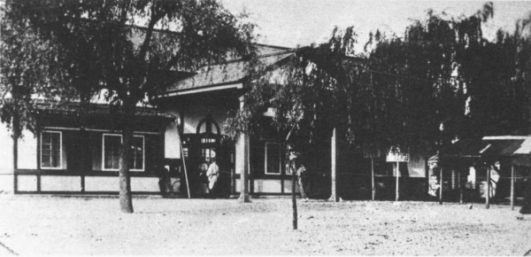 Unebi Station in 1905